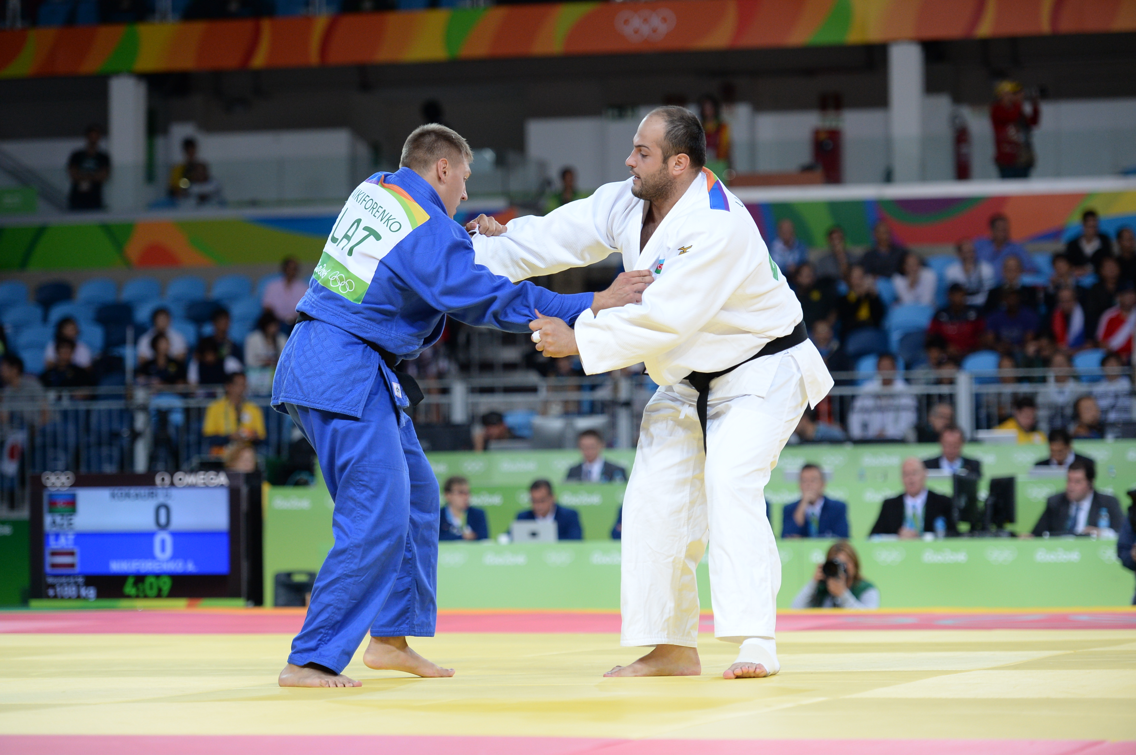 Judo at the 2016 Summer Olympics, Kokauri vs Ņikiforenko